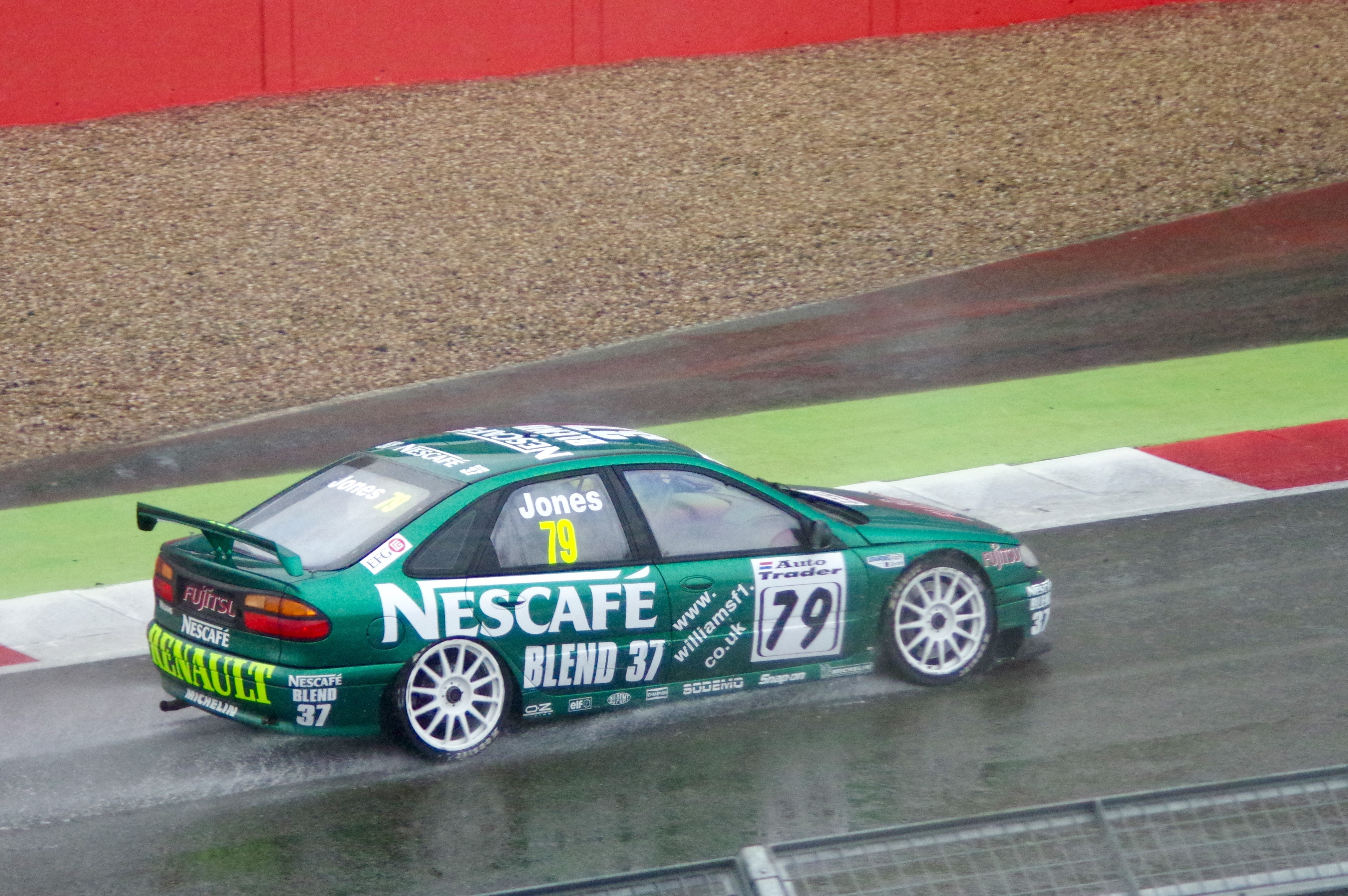 Silverstone Classic 2015